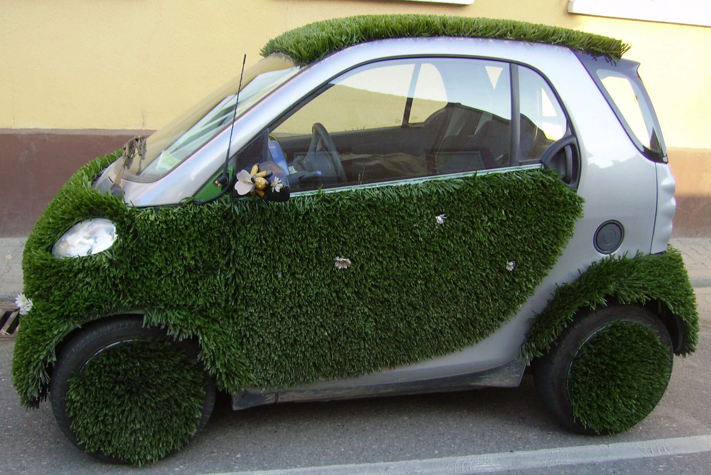 small car in Frankenthal, Rhineland-Palatinate (Germany)